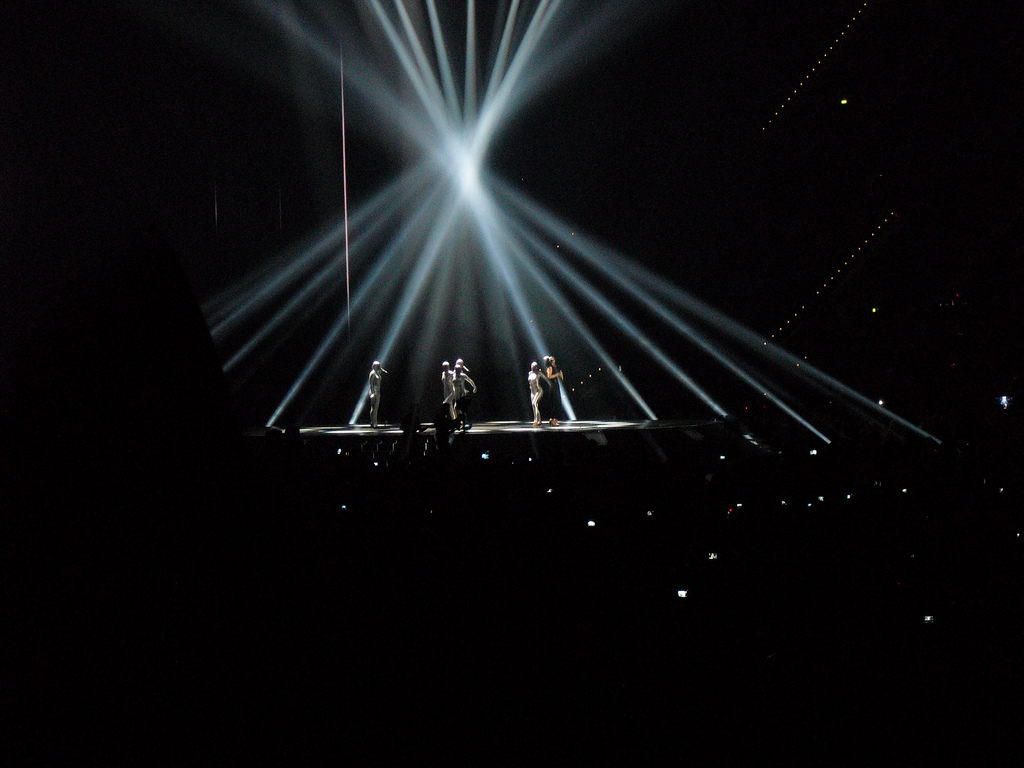 Lena Meyer-Landrut ESC 2011 (dress rehearsal)